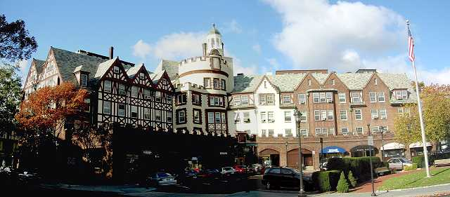 Scarsdale NY, 2002 showing characteristic imitation-half-timbered commercial building,Building pictured is named "Harwood Court"